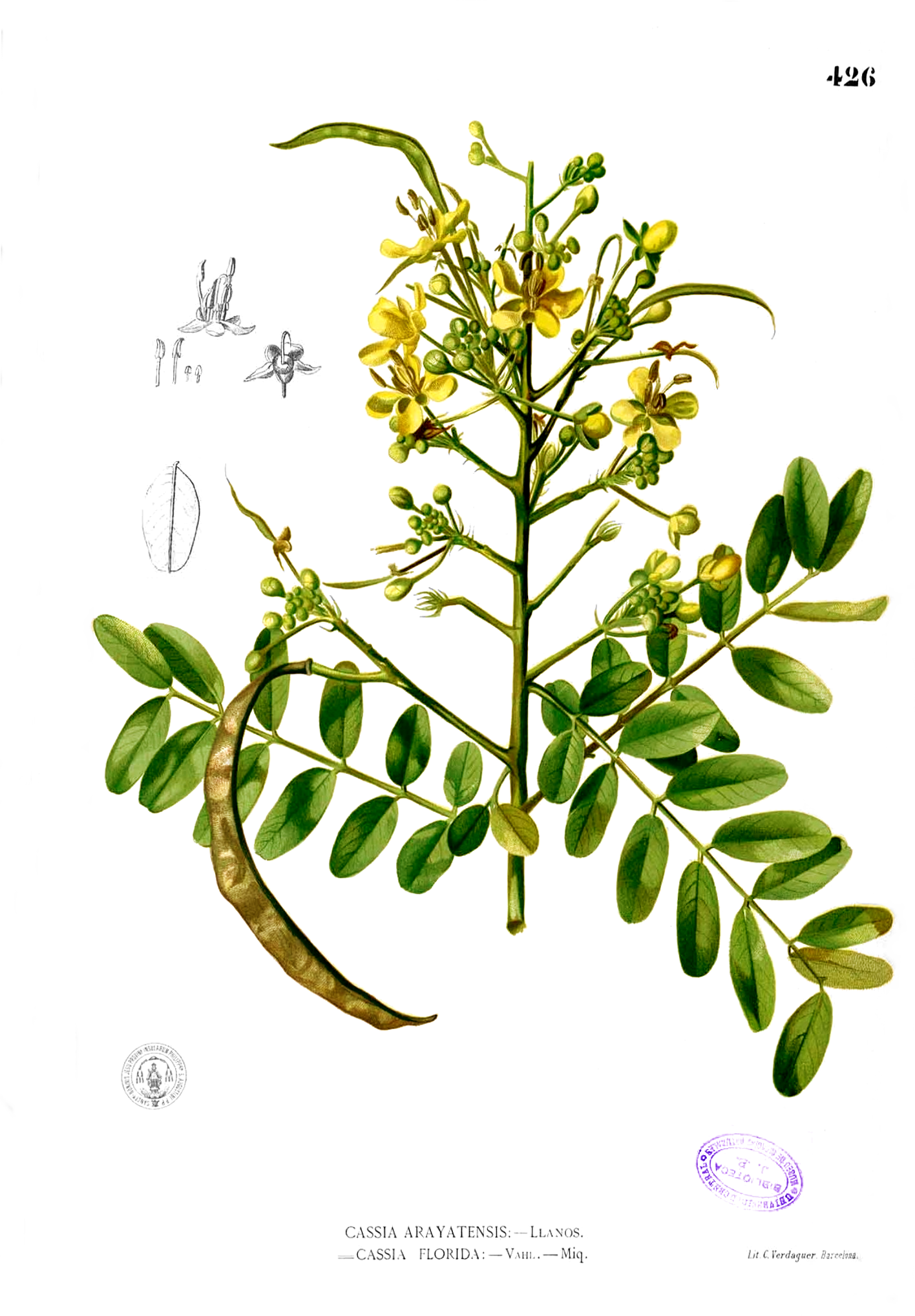 Plate from book